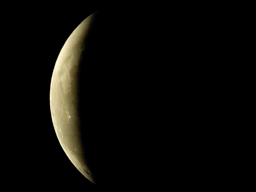 Lunar Eclipse of October 28, 2004